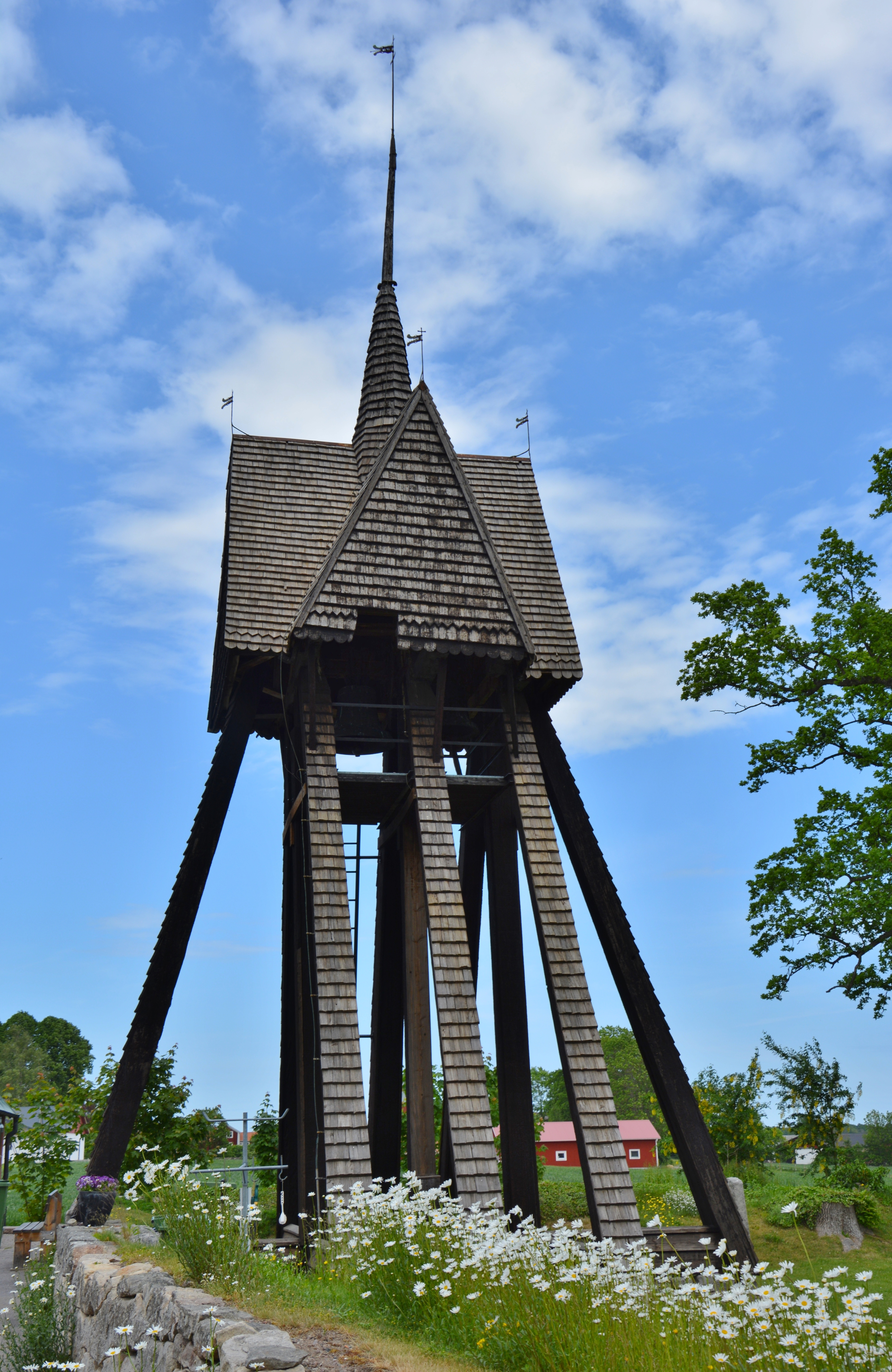 Voxtorp Church.The bell tower